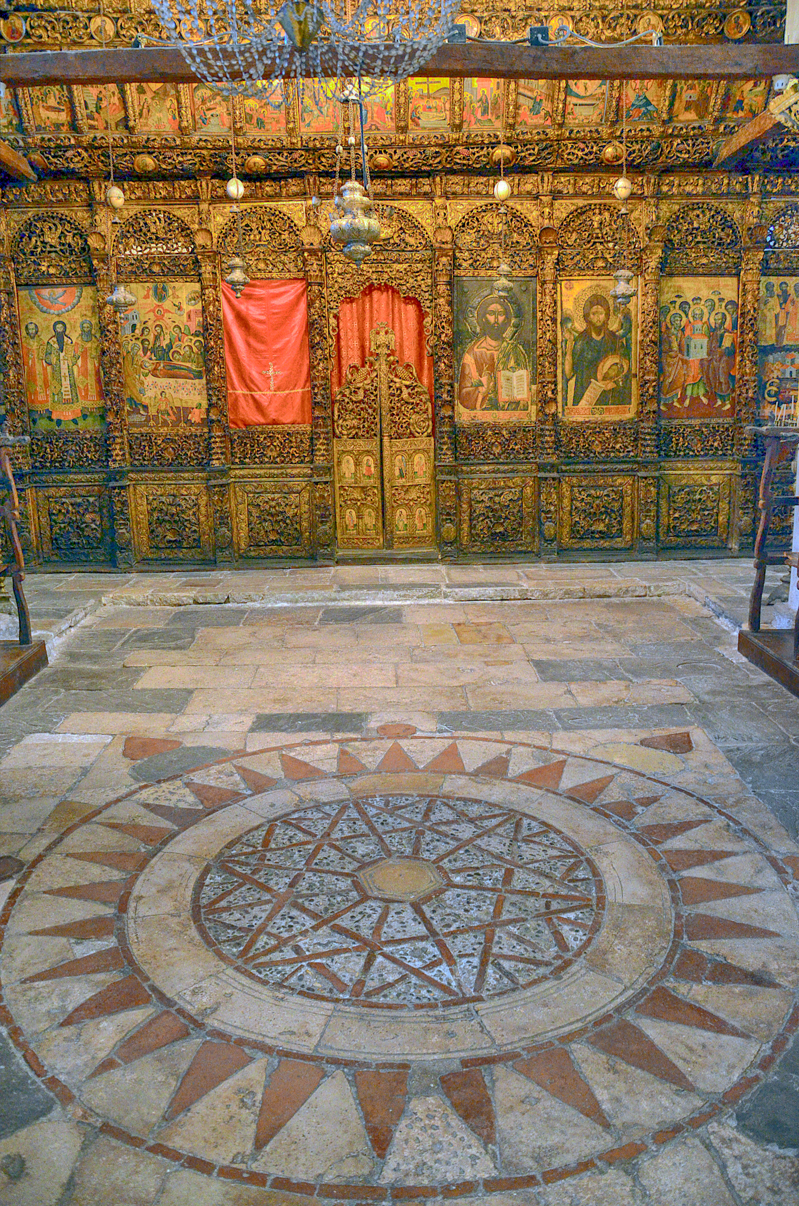 Cathedral of Assumption of St Mary in Berat